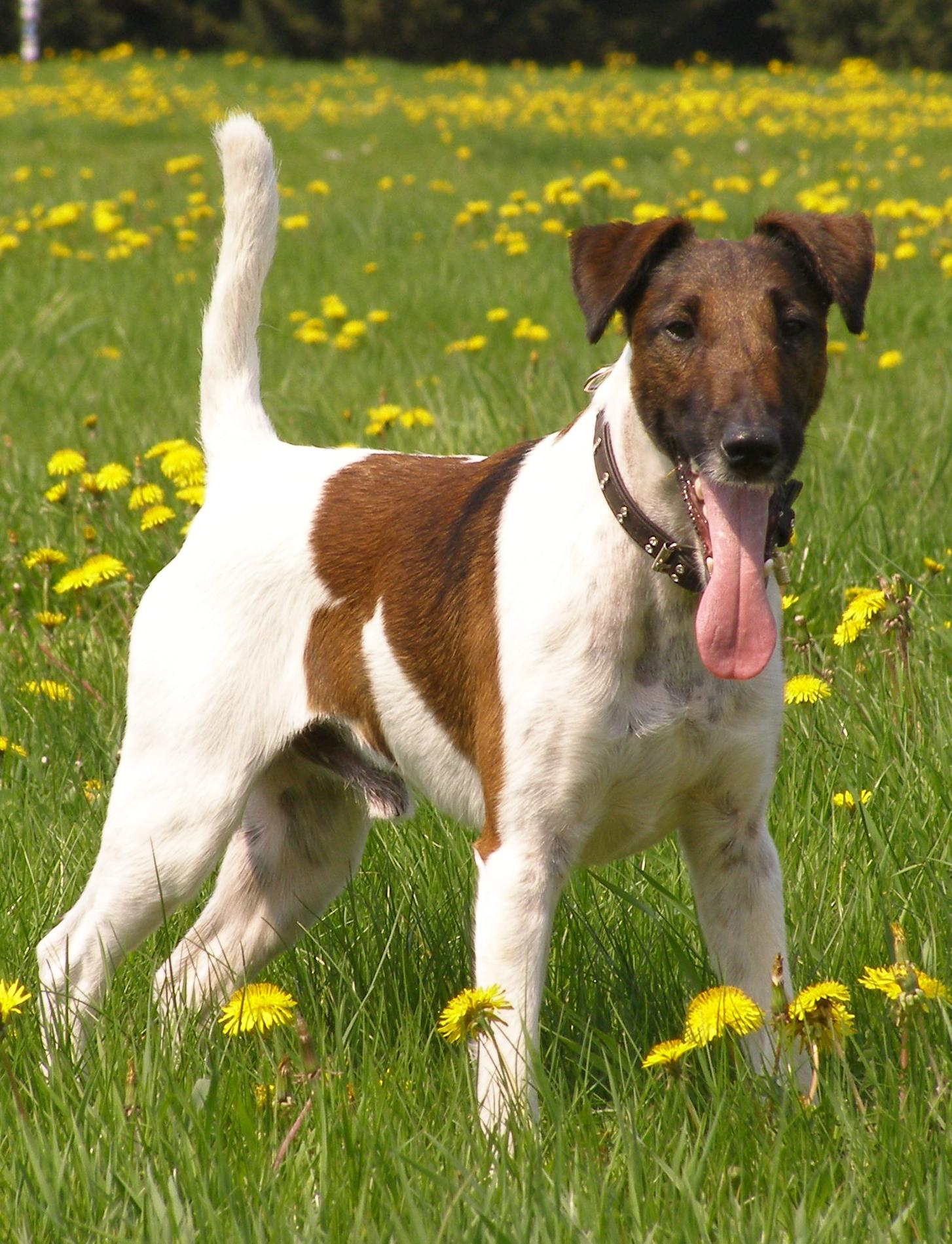 Smooth Fox Terrier from "Czeczuga" Poland